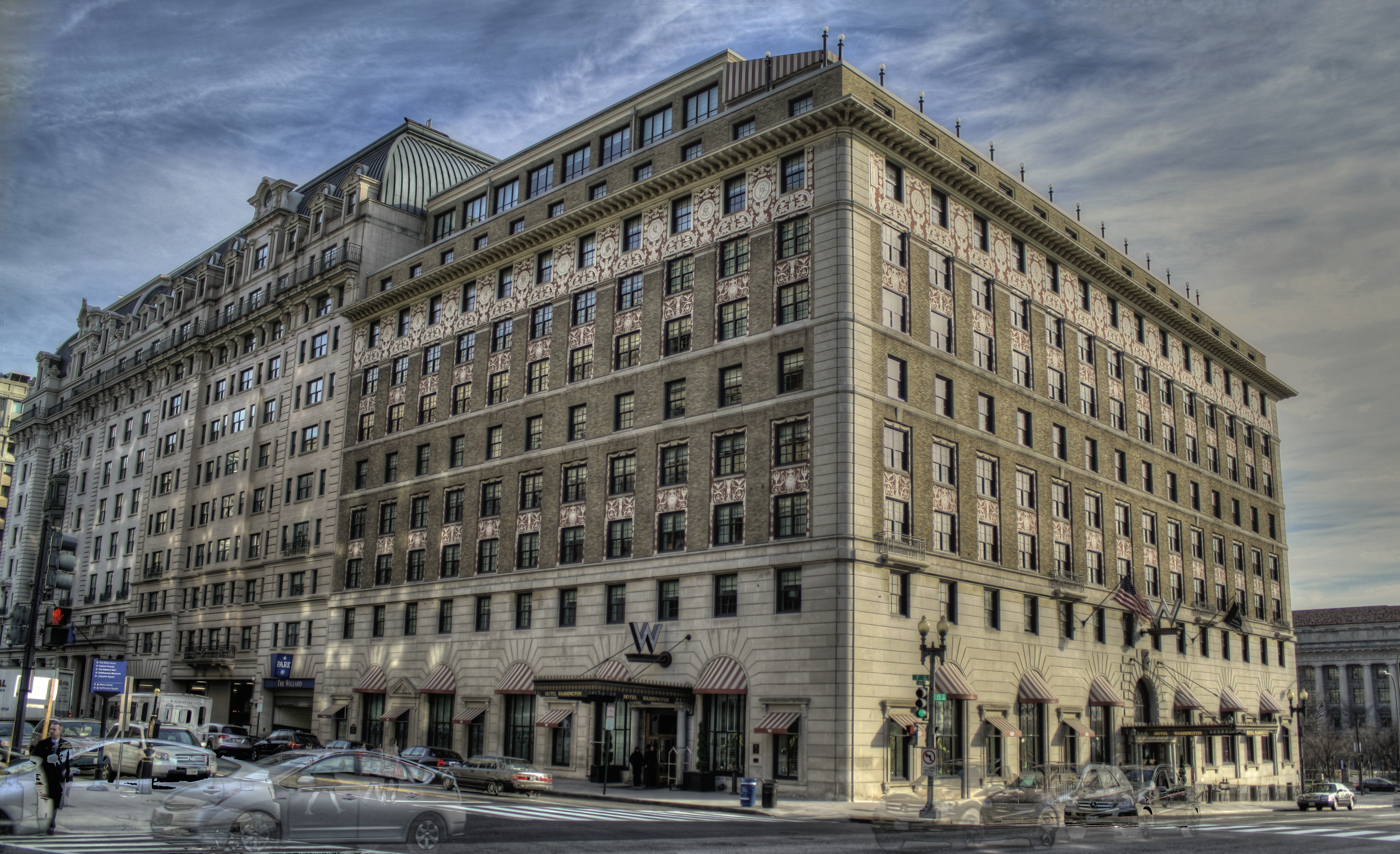 This category is for files uploaded as part of the 2012 Wiki Loves Monuments - United States photo contest and which are nominated for the best picture prize. Contents: Top0–9A B C D E F G H I J K L M N O P Q R S T U V W X Y Z~